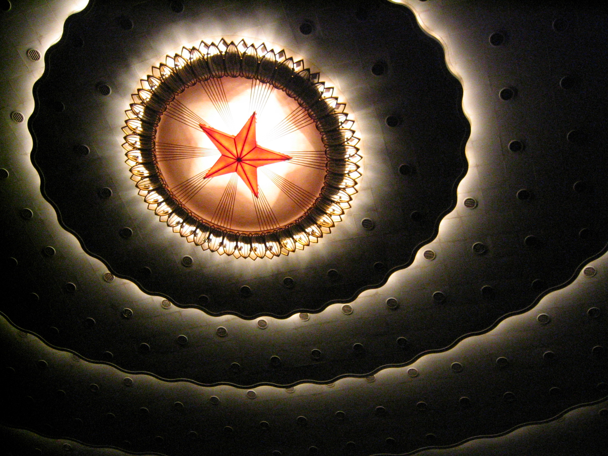 The ceiling of the 10,000-seat auditorium in China's Great Hall of the People.